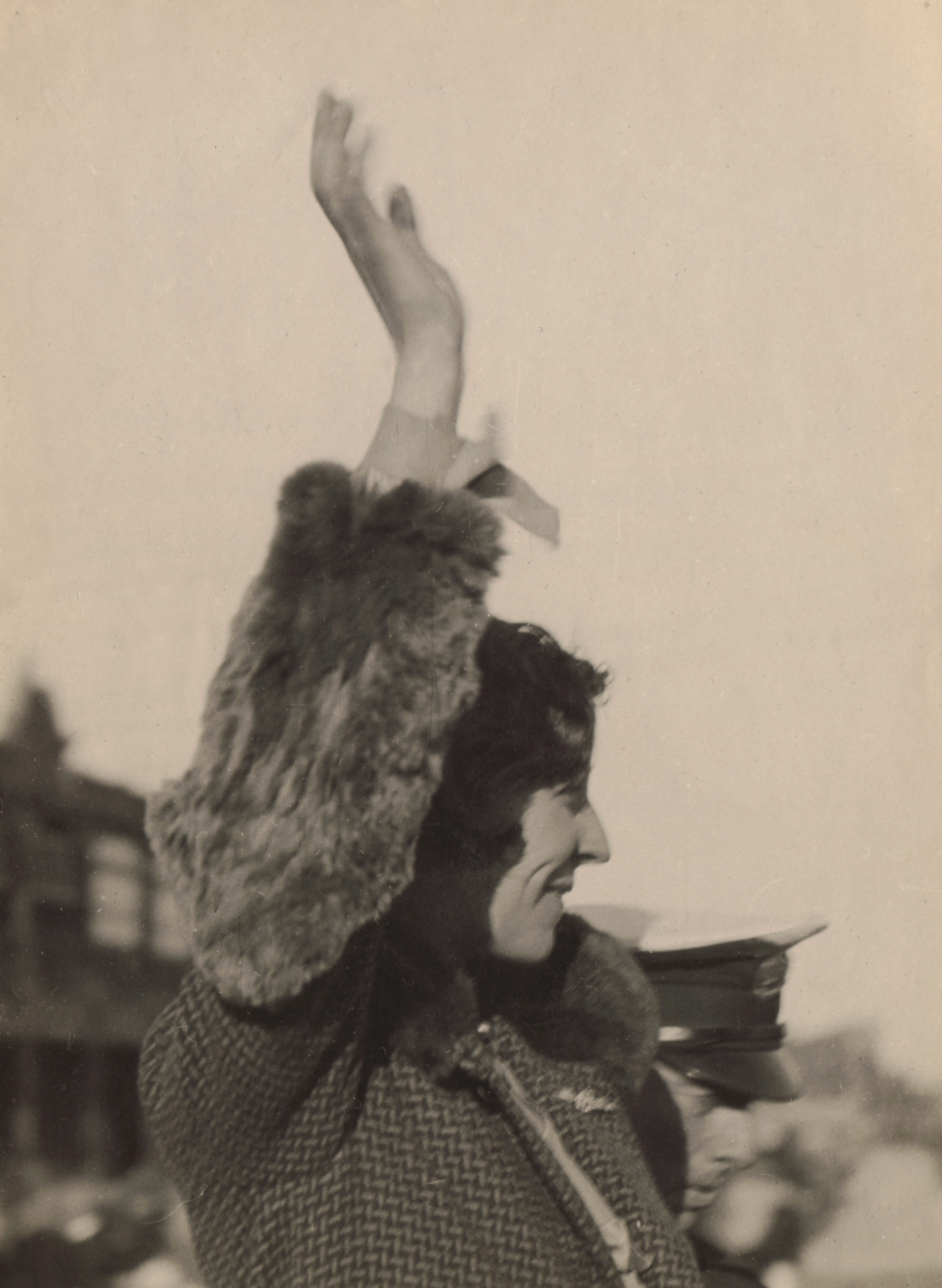 Amy Johnson, aviatrix. Kalgoorlie, Western Australia.